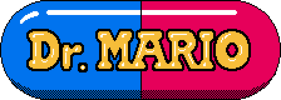 The logo of 1990 video game Dr. Mario, developed and published by Nintendo